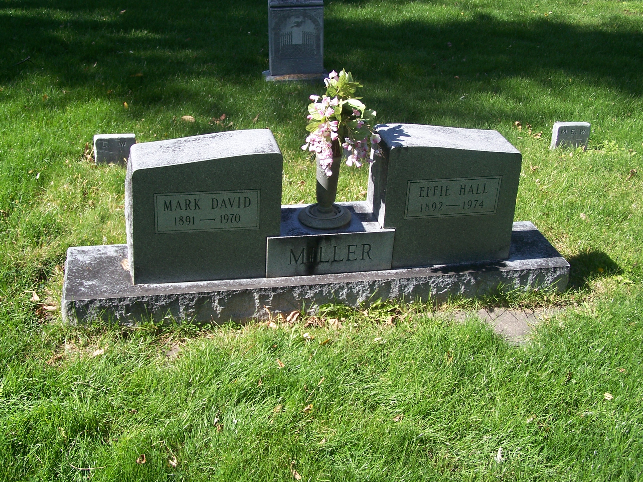 Mark D. Miller headstone in Grandview Cemetery, Fort Collins, Colorado.